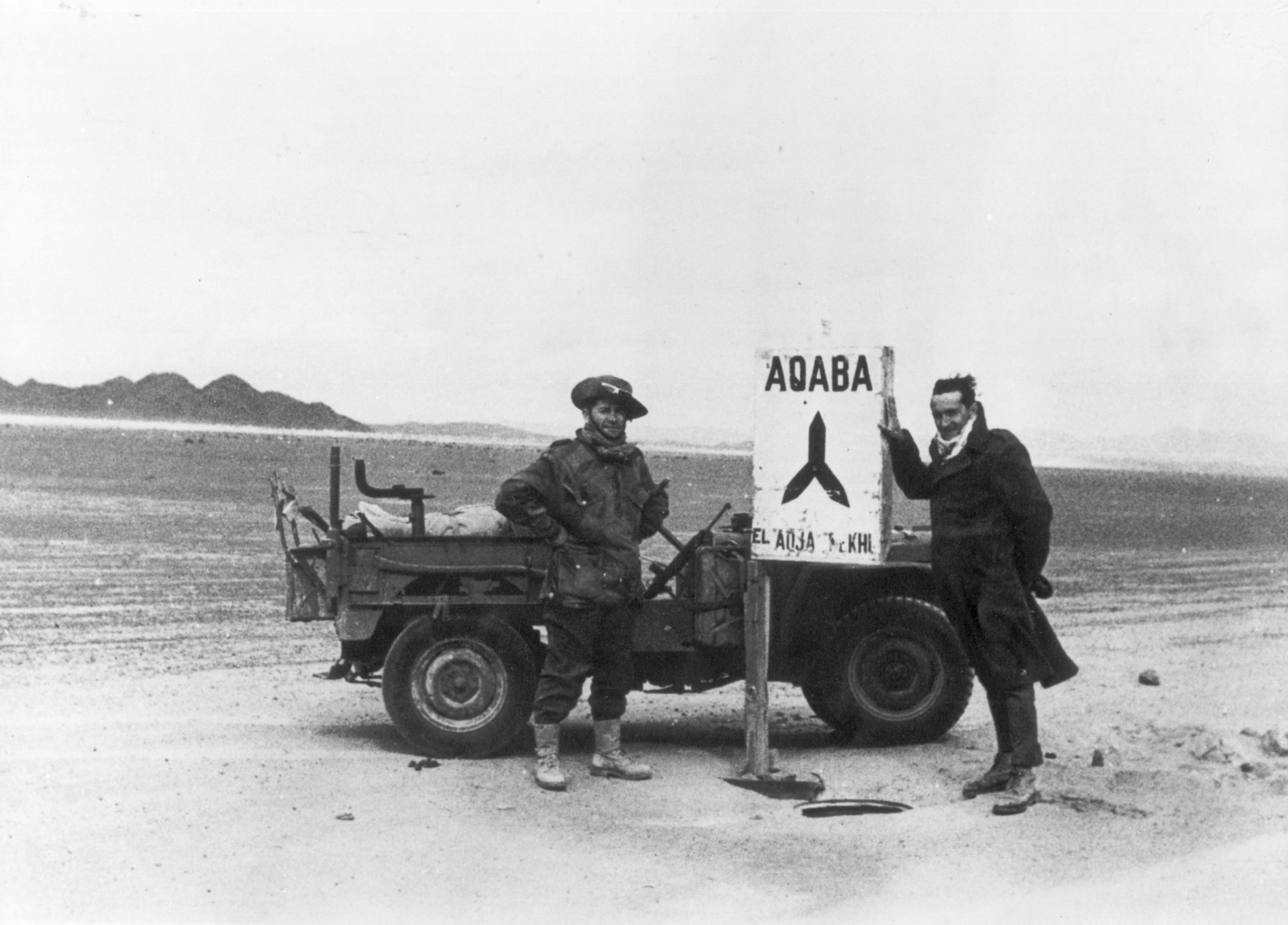 The Palmach, Israel Defense Forces